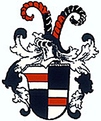 Wappen der Adelsfamilie Nix von Hoheneck (Pforzheim)